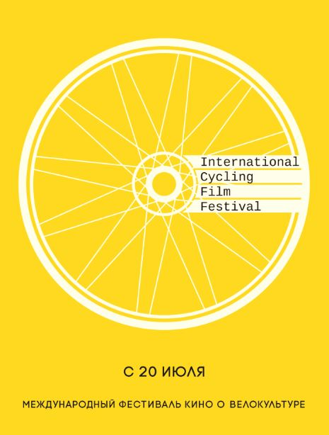 Official Poster of the ICFF tour across Russia in Summer 2017